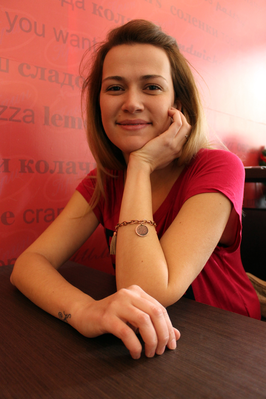 Irena Jordanova